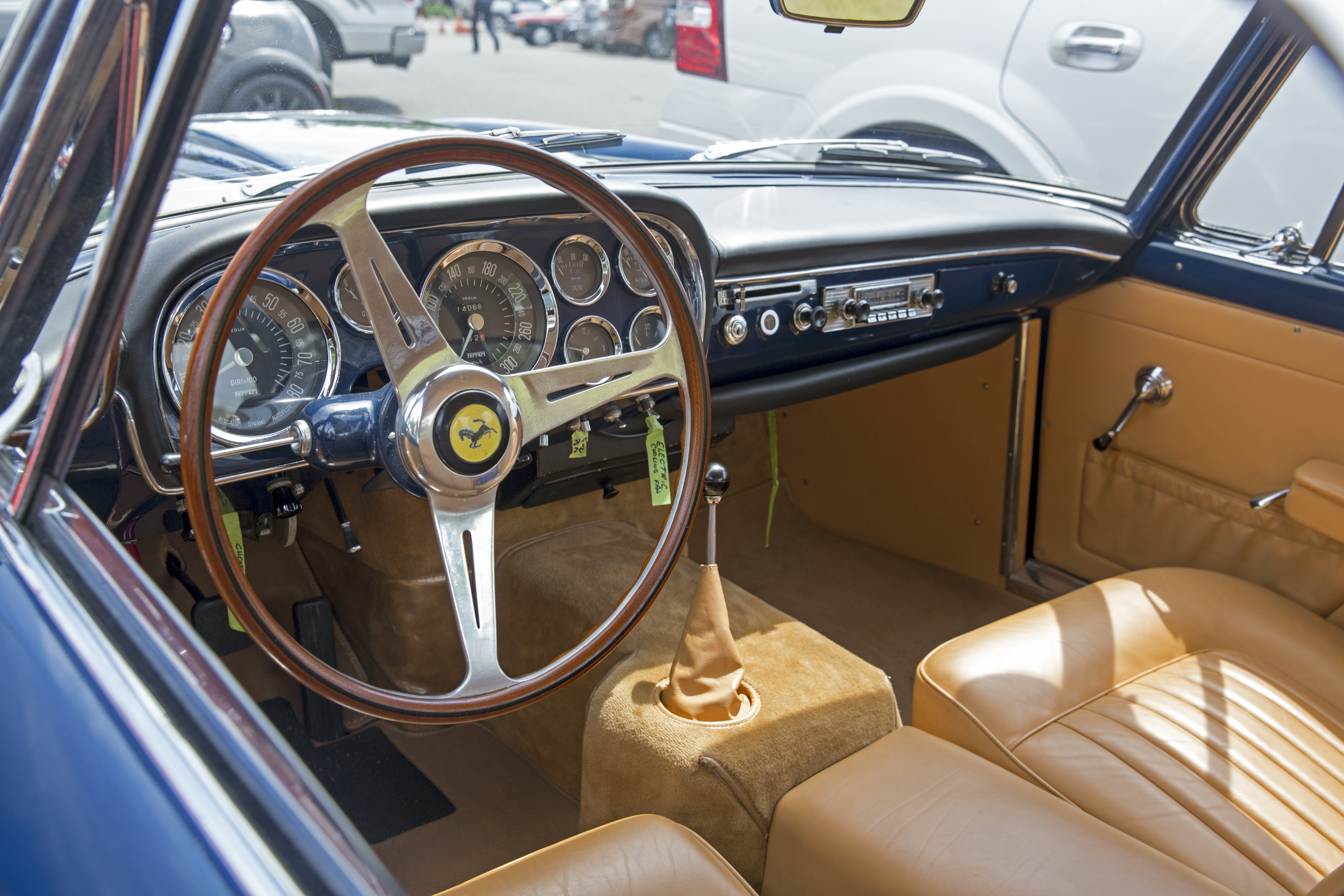 The dashboard of a 1959 Ferrari 250 GT Pinin Farina Coupé. See category description for more details. A breathtakingly beautiful vehicle.